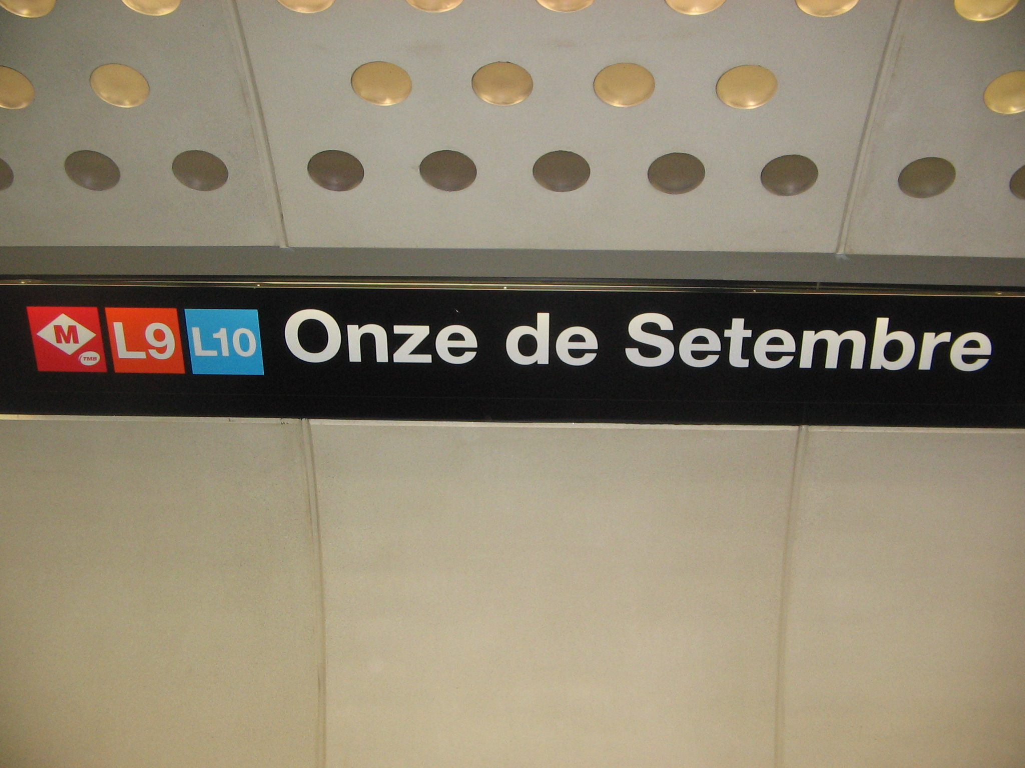 Onze de Setembre station